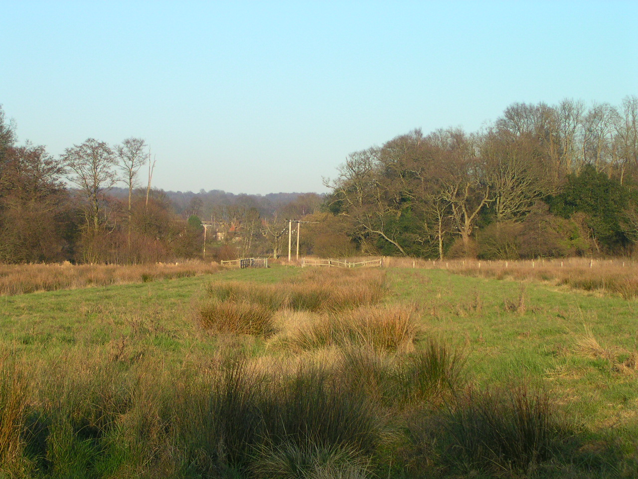 Petworth Canal channel looking north on the River Rother floodplain. Petworth, West Sussex, England.